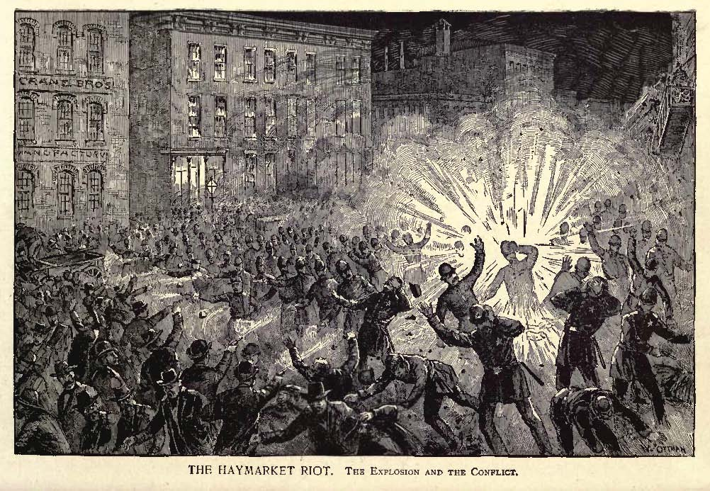 Explosion that set off the Haymarket Riot in 1886